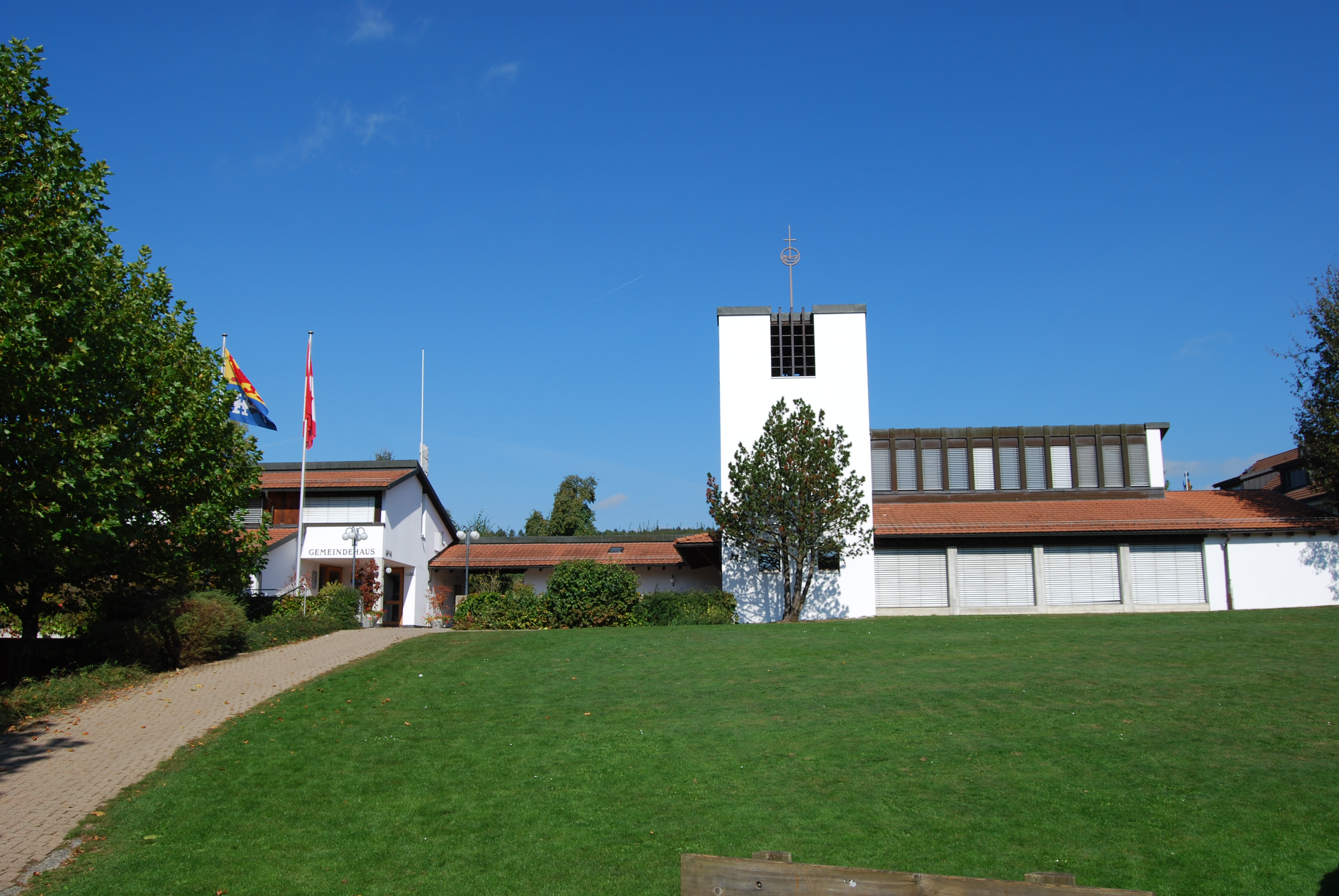 Municipal administration and church of Arni, canton of Aargau, SwitzerlandEsperanto: Komunuma centro kaj preĝejo de Arni, Kantono Argovio, Svislando